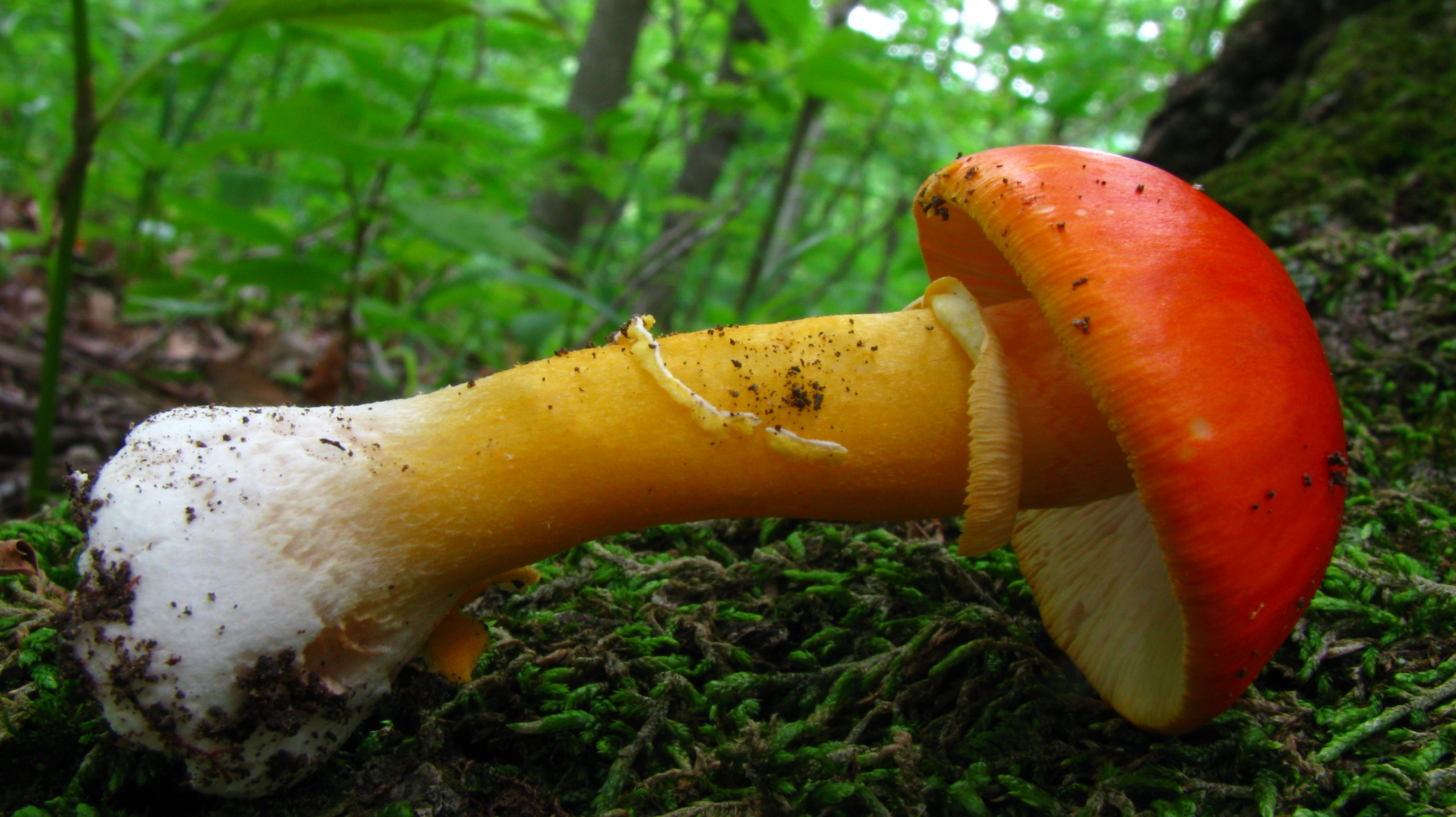 The mushroom Amanita flavoconia G. F. Atk. Photographed in Strouds Run State Park, Athens, Ohio, USA.